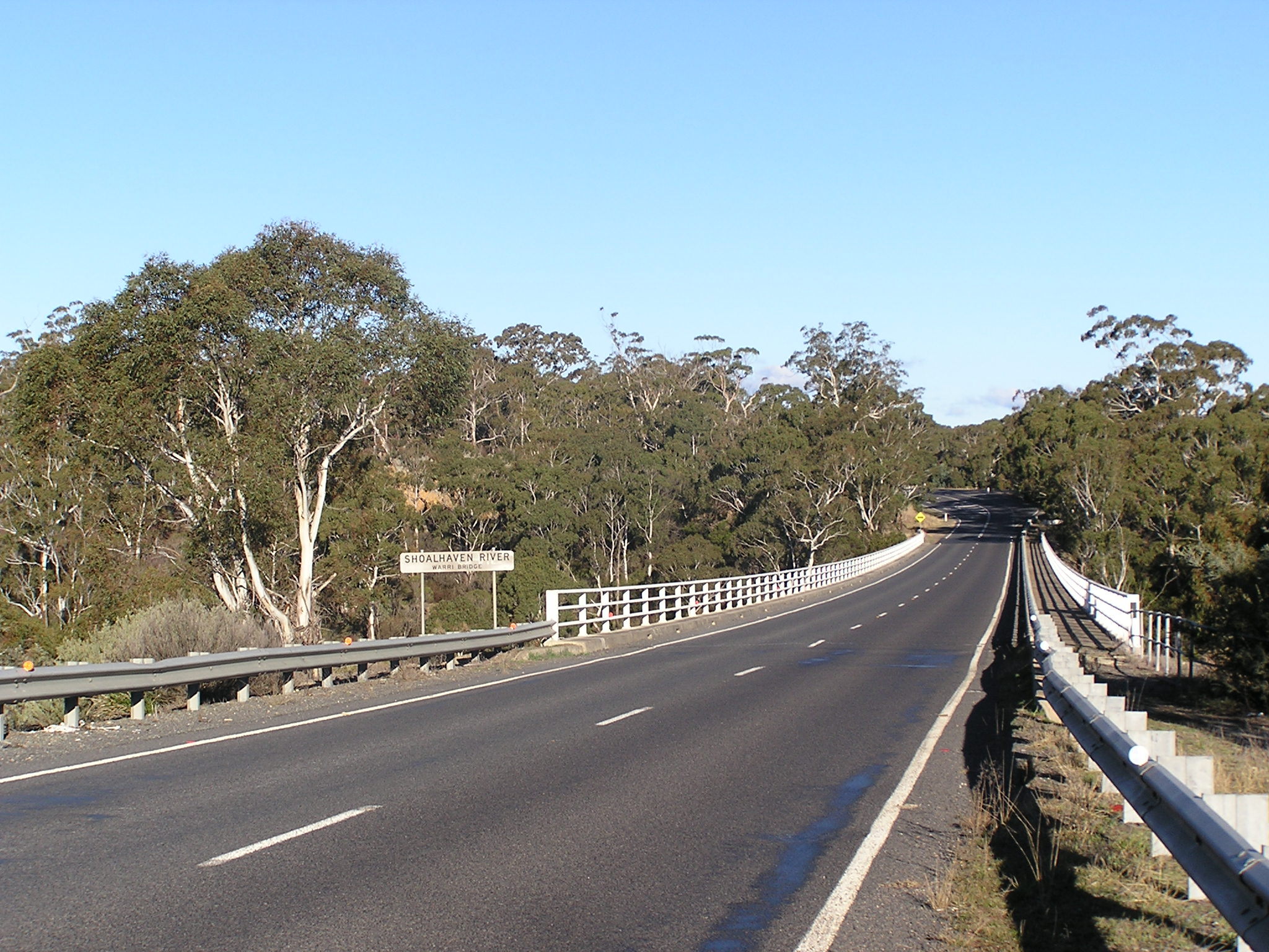 Warri Bridge on the Kings Highway (Canberra to Batemans Bay) crossing the Shoalhaven River near Braidwood, New South Wales, Australia.